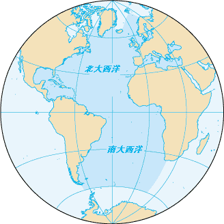 Atlantic Ocean map